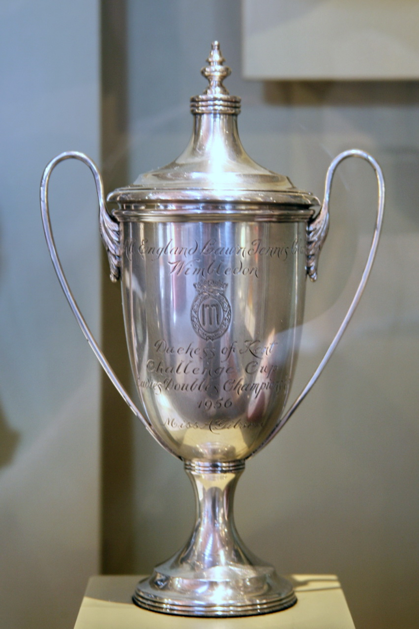 In 1950 tennis star Althea Gibson (1927-2003) became the first African American to compete in the U.S. Nationals. The next year she became the first African American to play at Wimbledon, England. (Museum of American History – Behring Center)